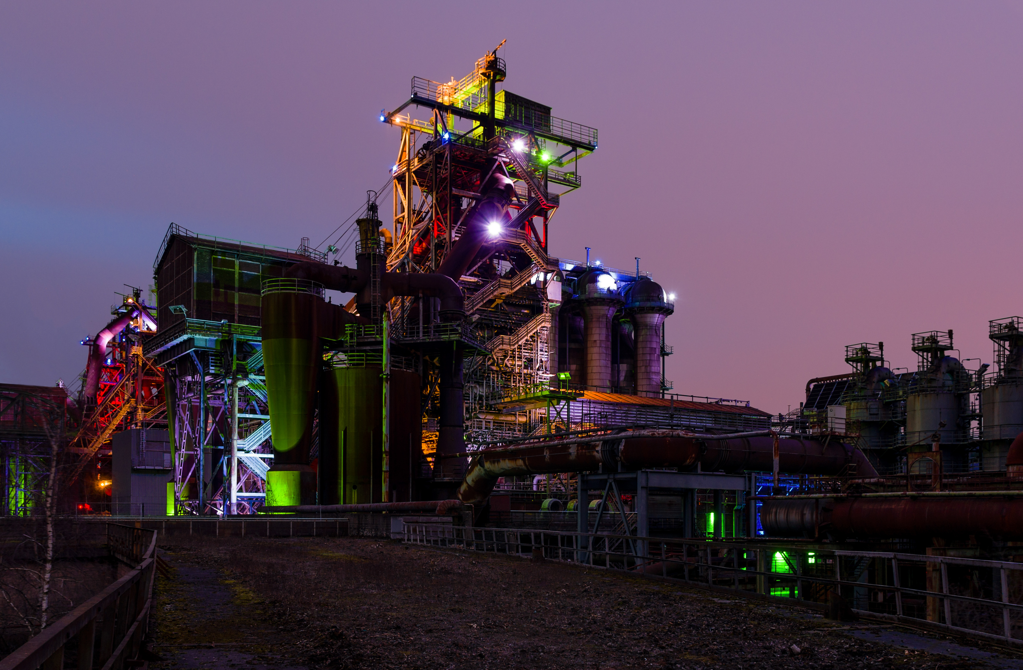 Furnace No 5 at Landschaftspark Duisburg-Nord (Landscape Park Duisburg North) at night